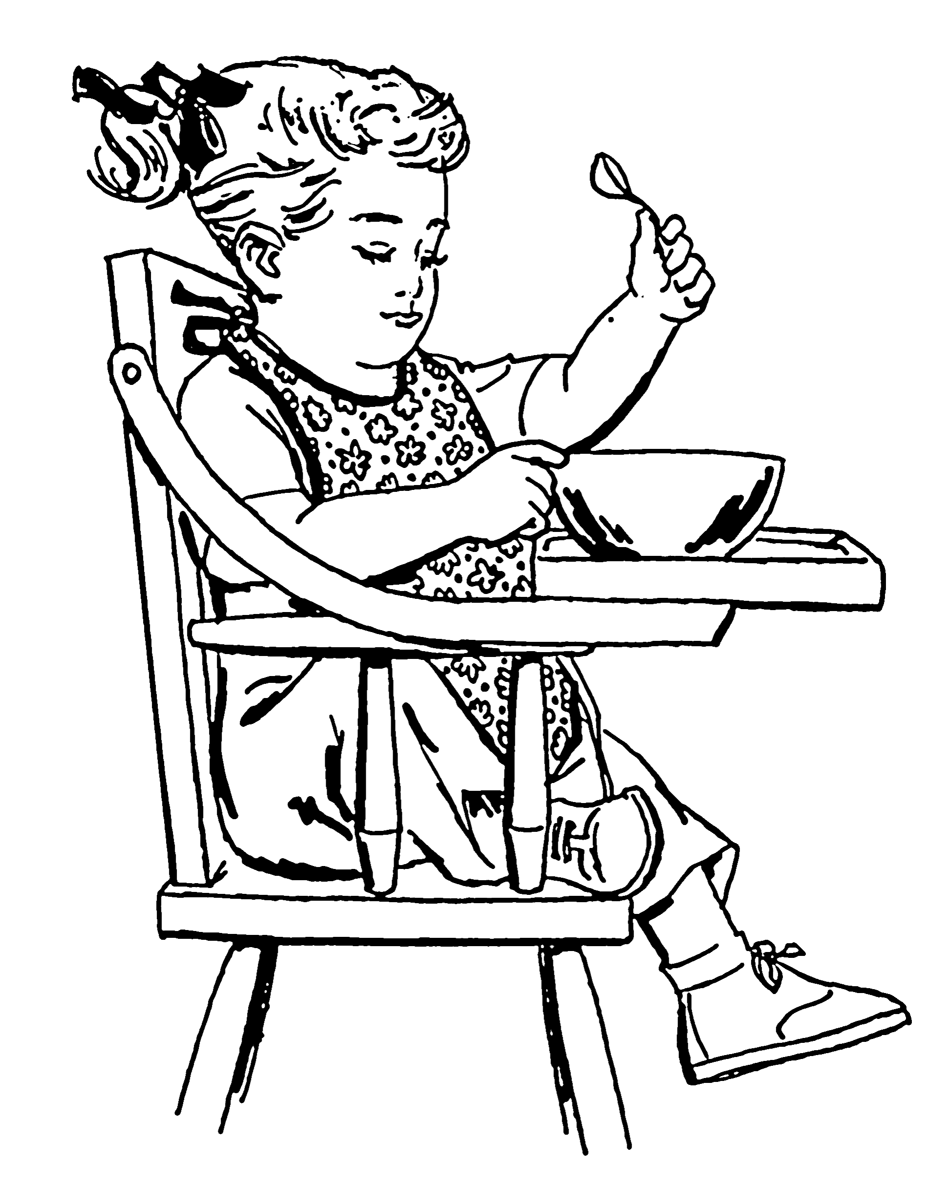 Line art drawing of a child wearing a bib.